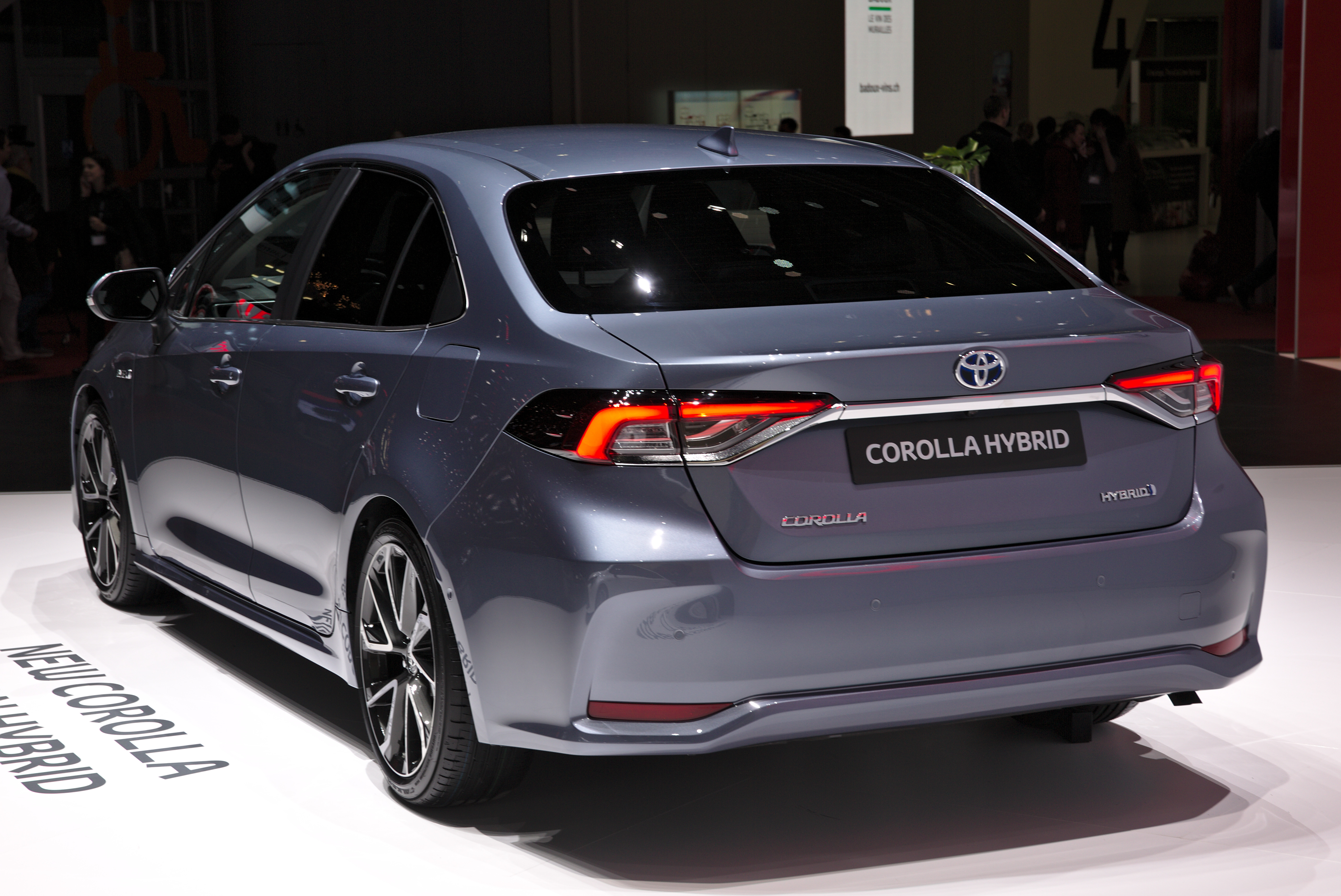 Toyota Corolla Limousine Hybrid at Geneva Motor Show 2019